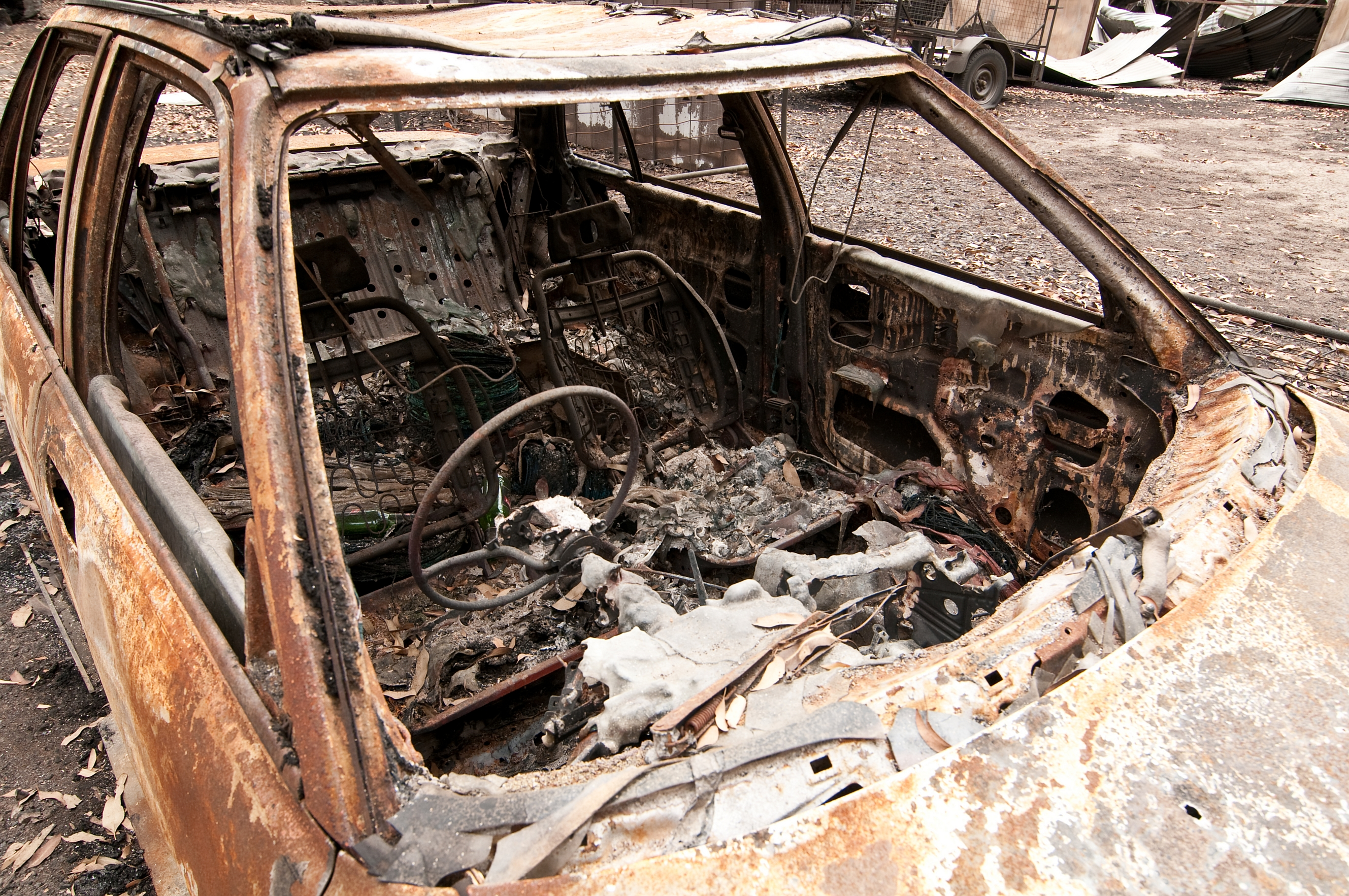 CSIRO is a participating agency in the Bushfire Cooperative Research Centre which has been looking at the key issues in the February 2009 bushfires. The CRC's Bushfire Research Task Force includes researchers from various state fire agencies and research organisations with expertise in building analysis, human behaviour, community education, bushfire behaviour, fire weather, and fire investigation. The purpose of the research is to provide fire and land management agencies with independent analyses of the factors surrounding the Victorian fires. CSIRO researchers from the Bushfire Dynamics and Applications Group, the Bushfire Urban Design project and the Remote Sensing team, will be involved with two areas of research: strategic fire behaviour - how the fires moved across different landscapes and different vegetation and under variable weather conditionsbuilding (infrastructure) and planning issues - patterns of loss and patterns of survival of build